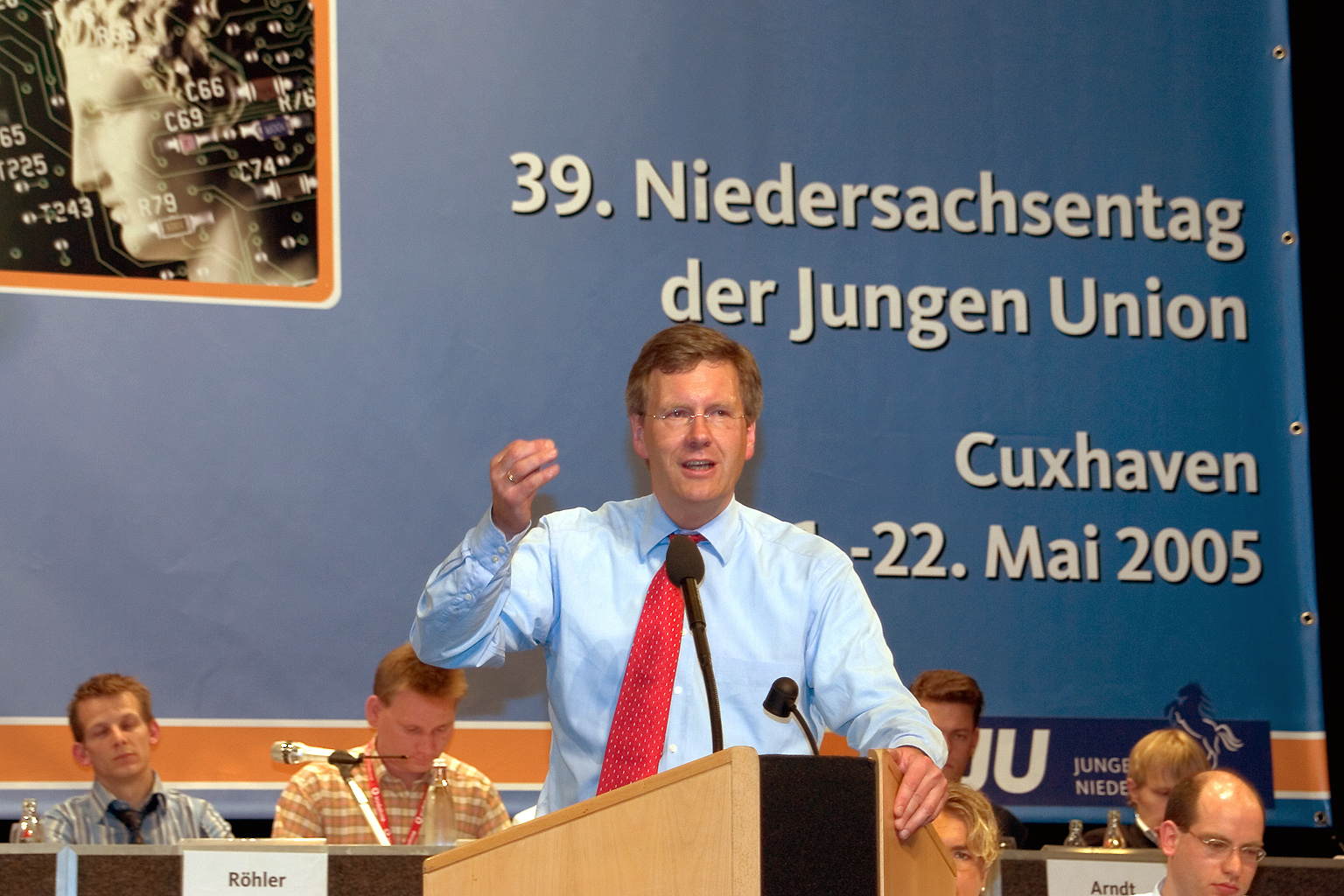 Christian Wulff (born June 19, 1959 in Osnabrueck) is a German politician (Christian Democratic Union of Germany) and Premier of Lower Saxony.